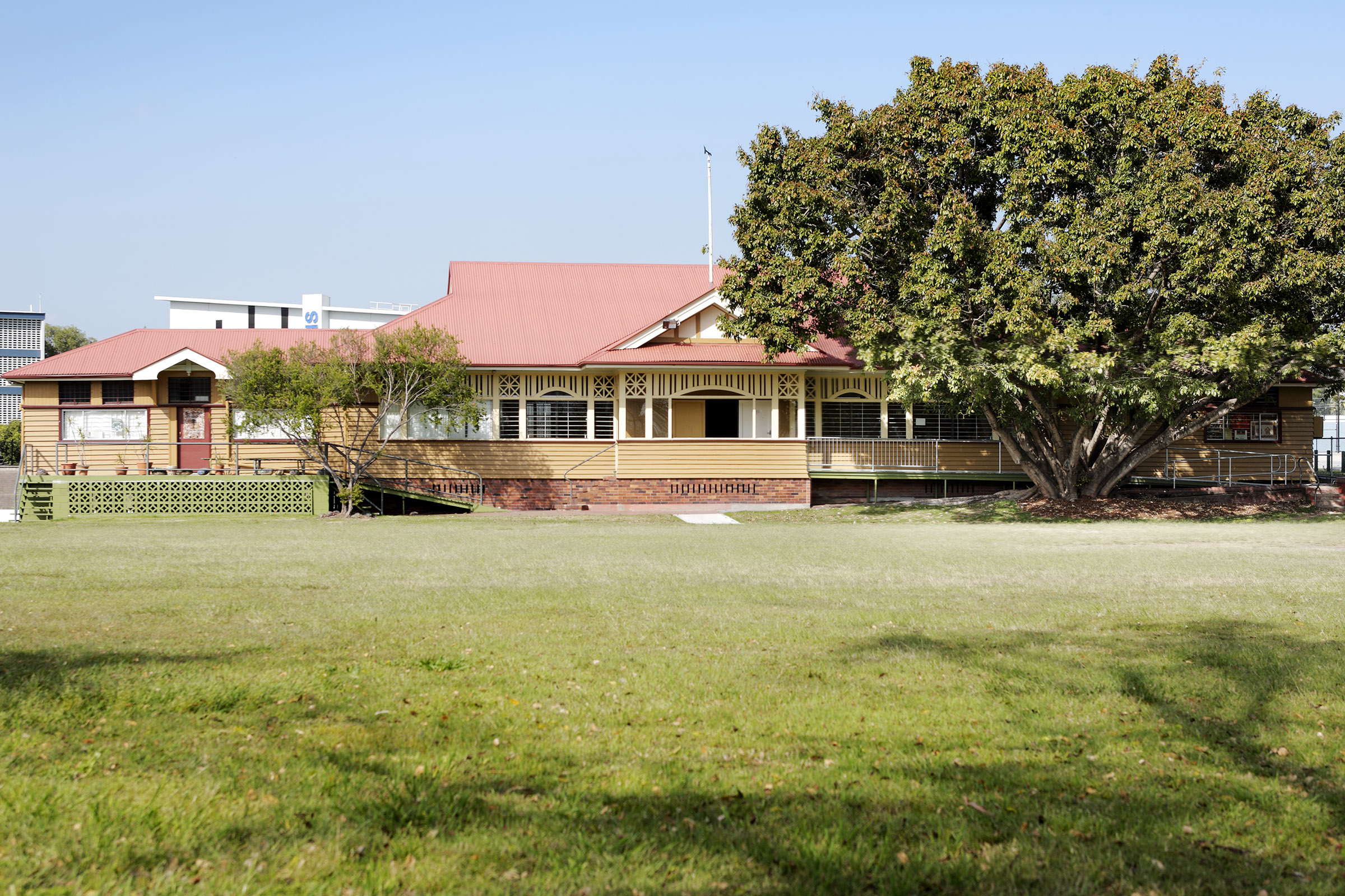 Jagera Arts Centre is located adjacent to Brisbane State High School and Musgrave Park.